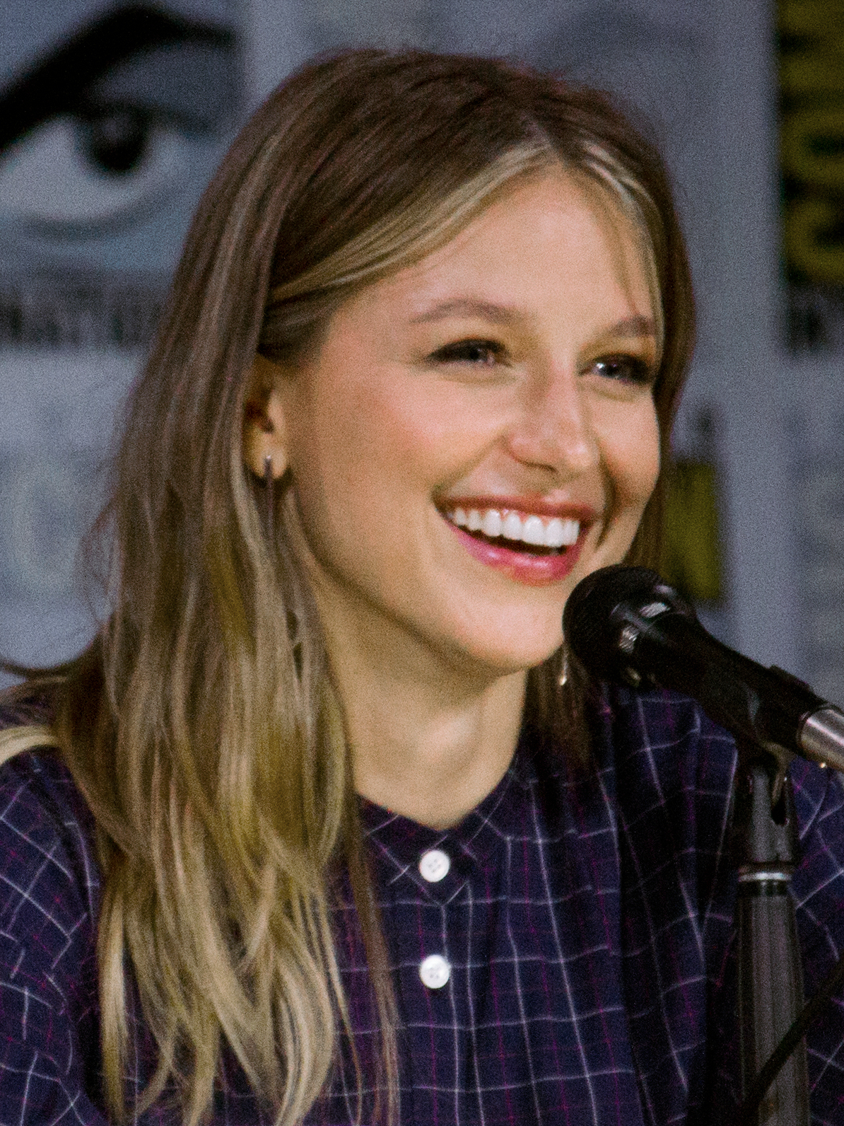 Supergirl: Cast & creators panel at SDCC 2017